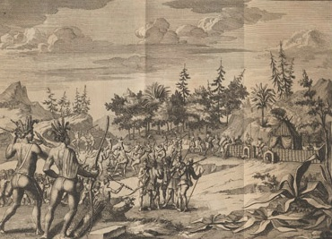 Engraving of Pring's fortification and surrounding Natives from 1706Dutch translation of the account from Purchas